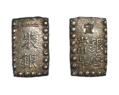 Ansei-1shugin